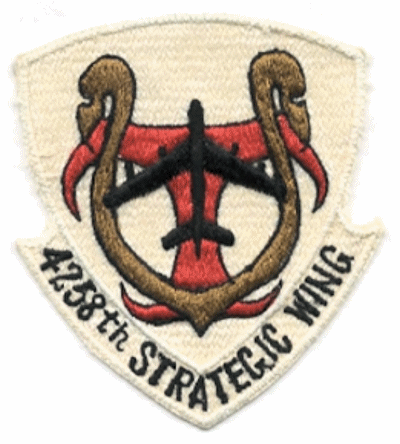 4258th Strategic Wing emblem. A copy of this emblem was downloaded from for use in my book “The Genealogy of the STRATEGIC AIR COMMAND” with the webmasters’ approval.